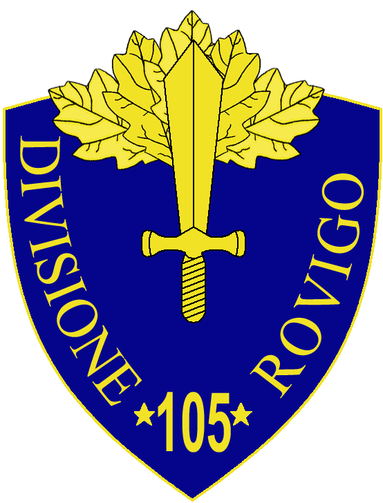 105a Divisione Fanteria Rovigo insignia, Regio Esercito, Italy, WWII